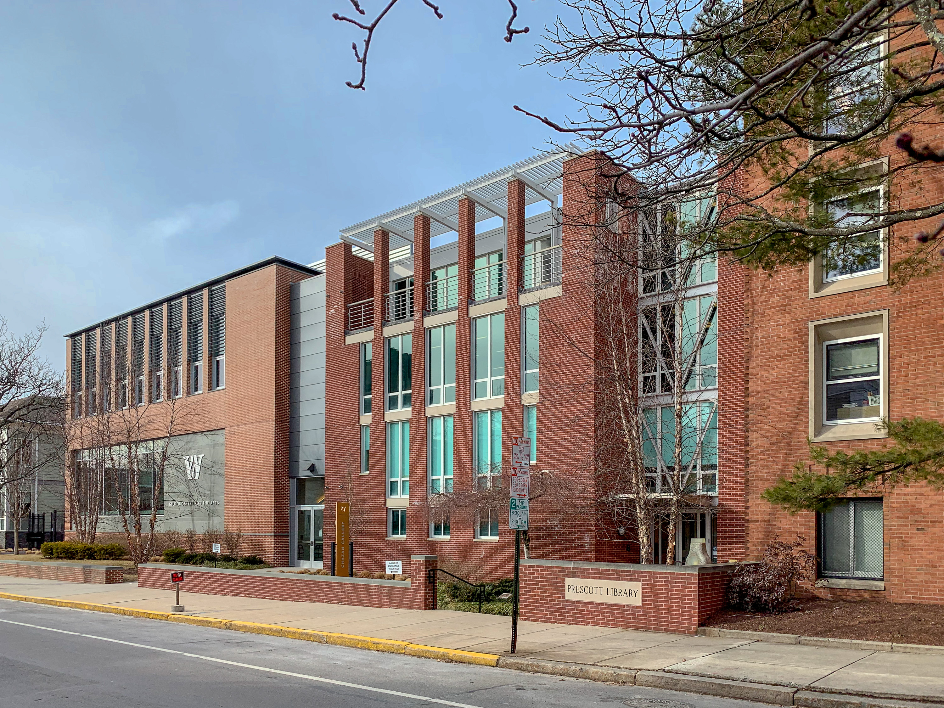 Wheeler School Gilder Center for Performing Arts. Angell Street, Providence, Rhode Island. Ann Beha Architects, 2014.